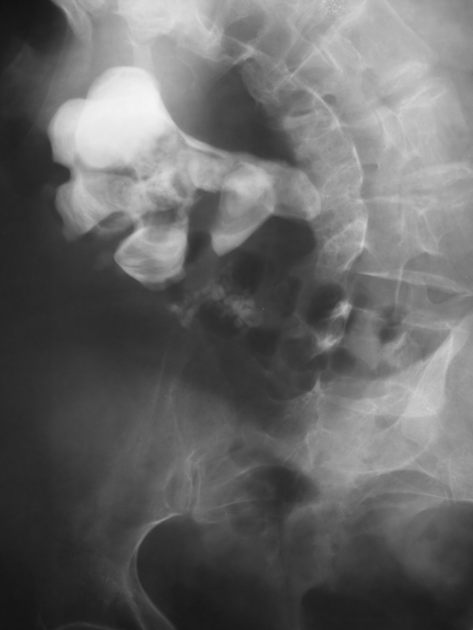 KUB Radiograph showing a large staghorn calculus involving the major calyces and renal pelvis in a person with severe scoliosis. Struvite stones can grow rapidly, forming large calyceal staghorn calculi which can require invasive surgery such as percutaneous nephrolithotomy or even anatrophic nephrolithotomy for definitive treatment.